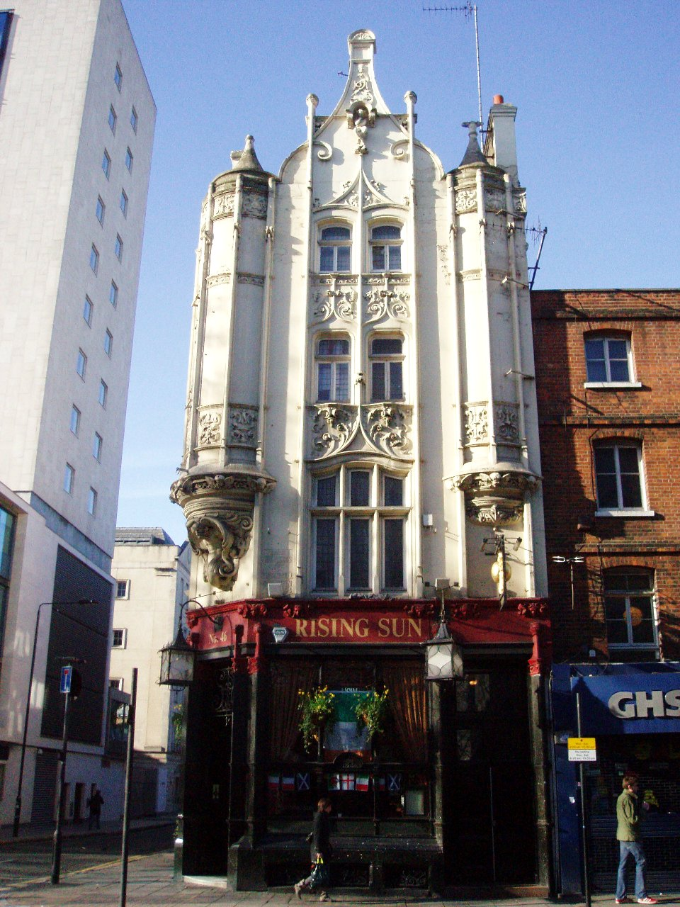 Ornate building, on Tottenham Court Road. (View of tiling in door.) Address: 46 Tottenham Court Road. Former Name(s): Presley's; The Sun. Owner: Punch Taverns [Spirit Group]. Links: Randomness Guide to London Fancyapint Beer in the Evening Qype Dead Pubs (history)